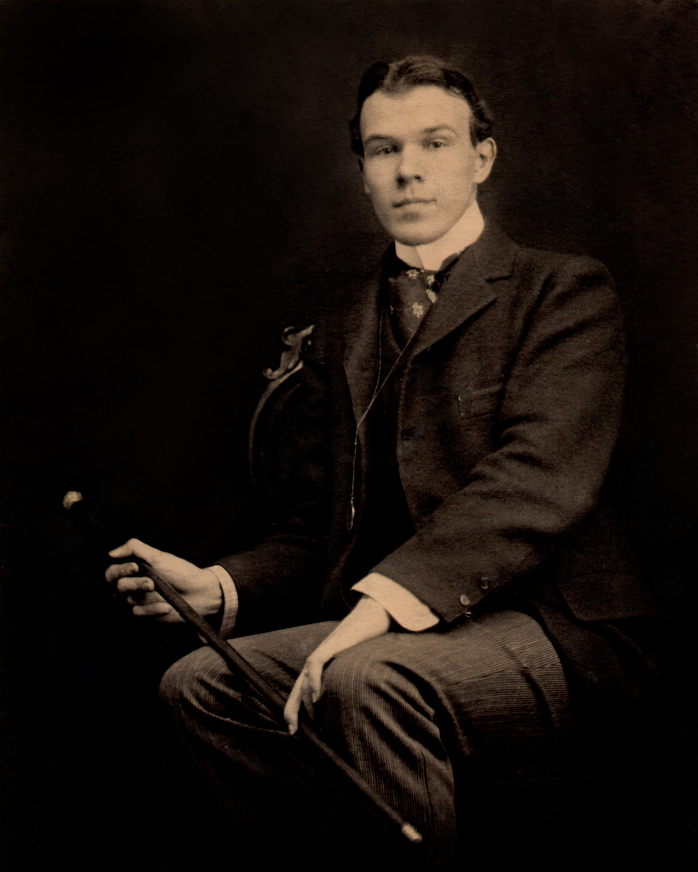 Photographic portrait taken in New York City circa 1899 by Zaida Ben-Yusuf of artist Ernest Haskell.